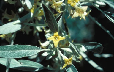 Russian Olive (Elaeagnus angustifolia)